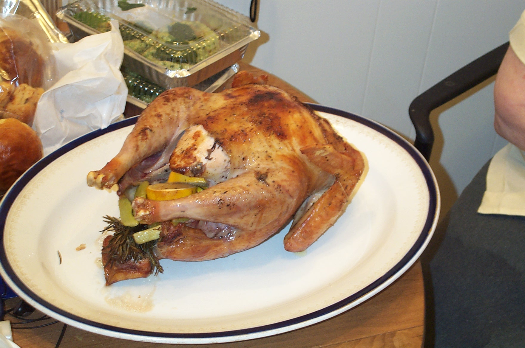 A heritage turkey of the Blue Slate breed.